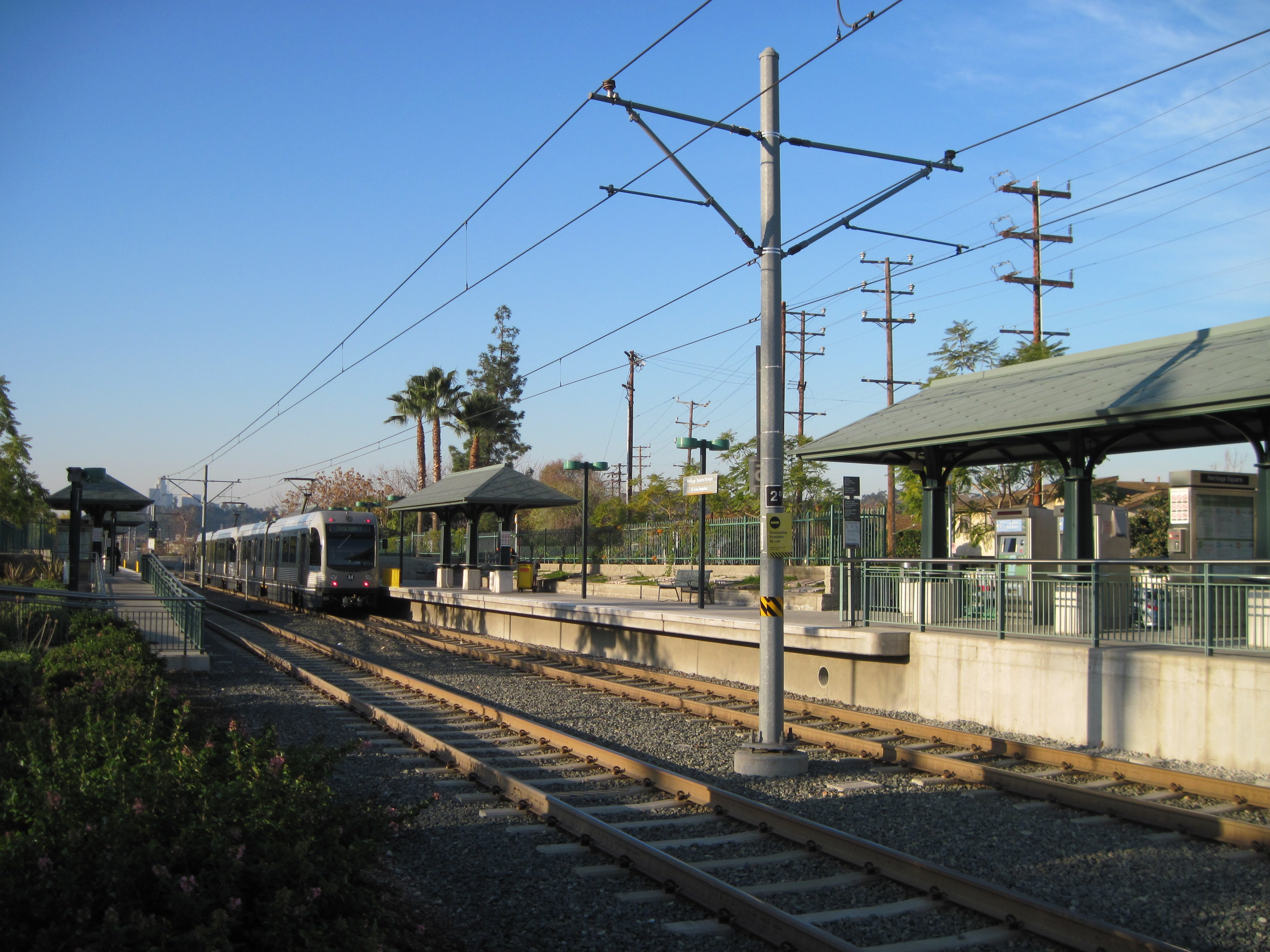 The Los Angeles County Metropolitan Transportation Authority's Heritage Square/Arroyo station, serving the Metro Gold Line in Los Angeles, California, USA.